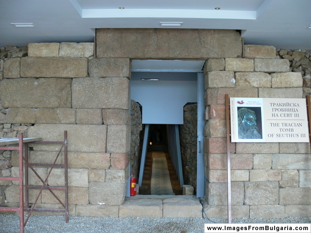 The Thracian tomb "Goliama Kosmatka", Bulgaria